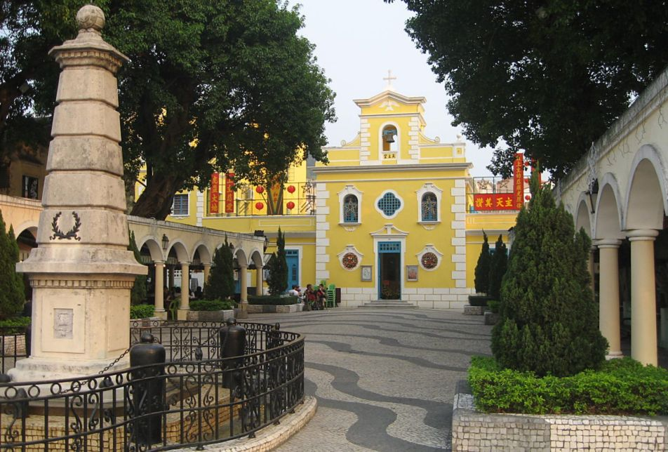 Picture of Chapel of St Francis Xavier in Coloane Village, Macau. Picture taken by slleong on Dec 2, 2007.